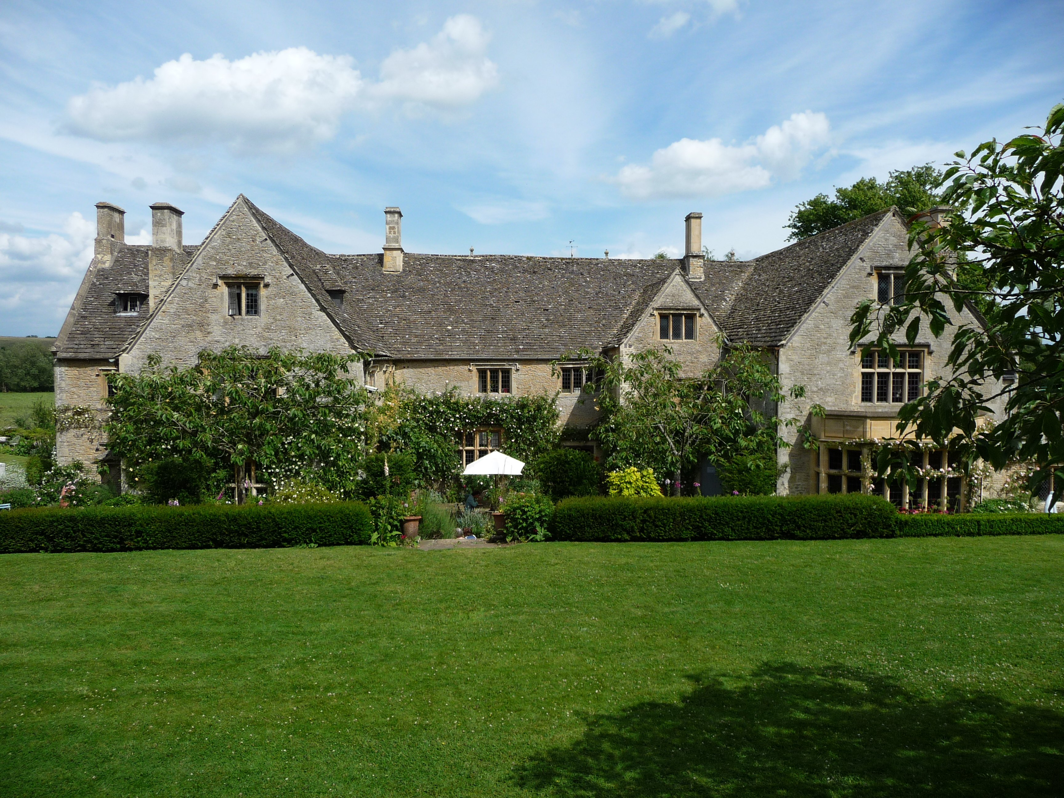 Rear view of Asthall Manor, nr Burford Oxfordshire. Formerly the seat of Lord Redesdale and the family home of the Mitford sisters.